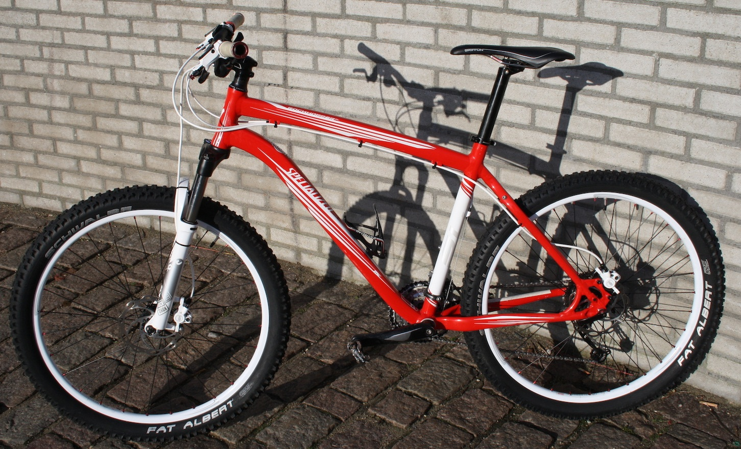 Typical modern hardtail mountain bike with telescopic fork. In this case my 2010 Specialized Rockhopper.